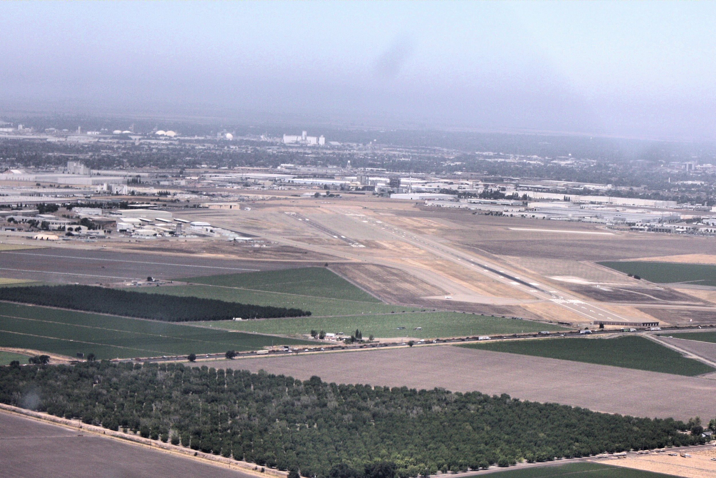 Aerial photo of the Stockton Metropolitan Airport viewed from the southeast